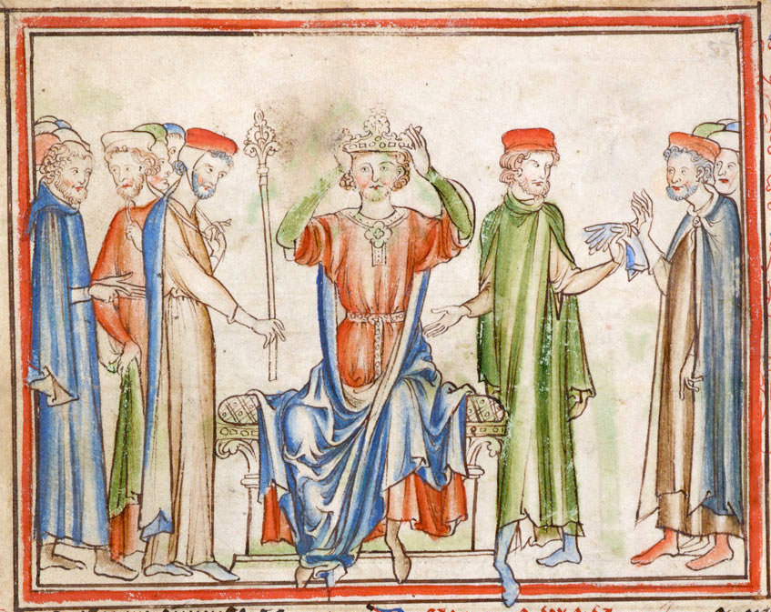 King Harold II places the crown on his own head. (Cambridge University Library, Ee.3.59, fo. 30v)